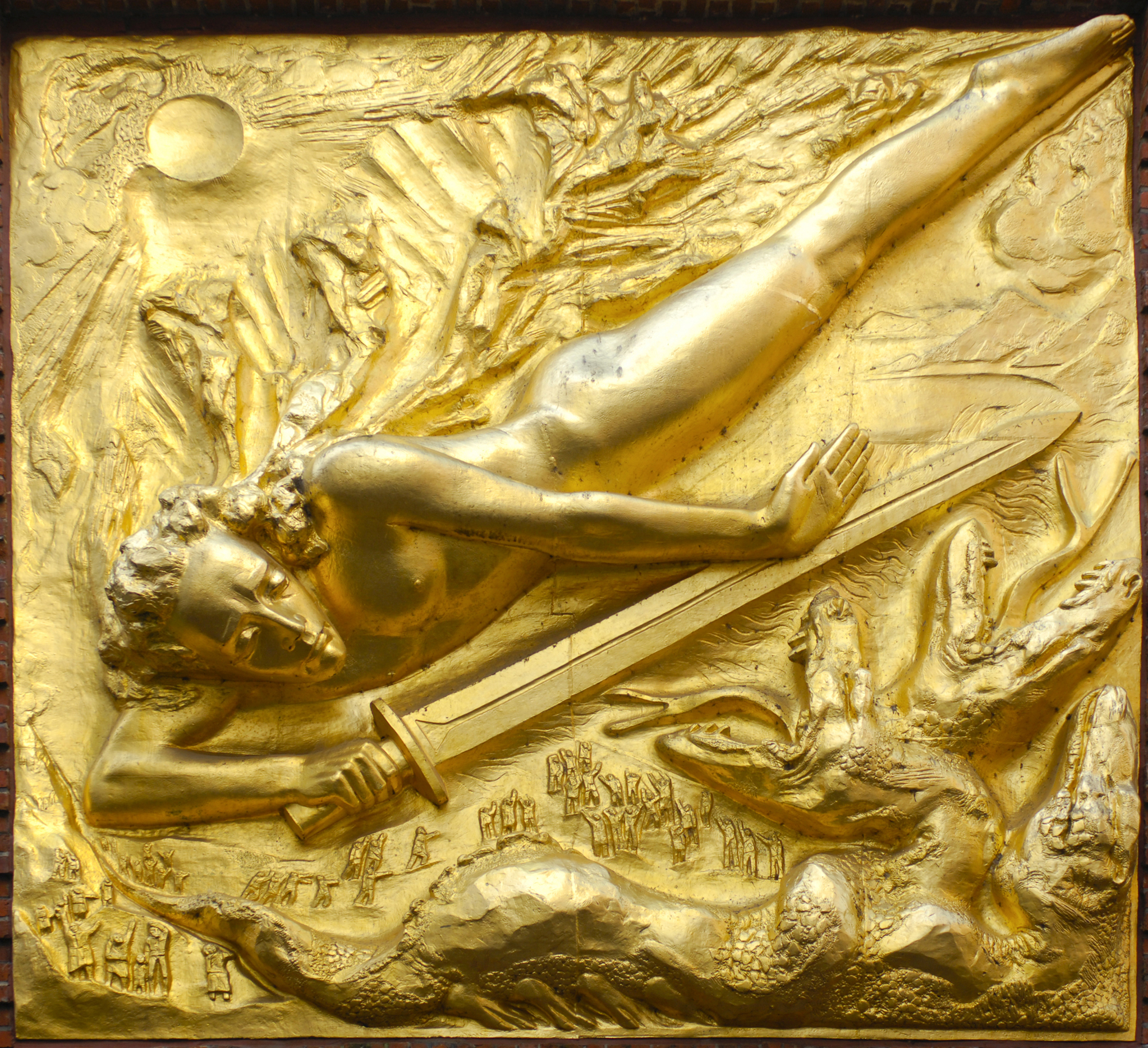 Michael the Archangel: Battle with the dragon